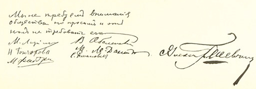 The autograph of Mikhail Larionov on one of the pages of the book "Donkey's Tail and Target". One of the principles of the group, proclaimed in the foreword to the catalog of the exhibition "Target"